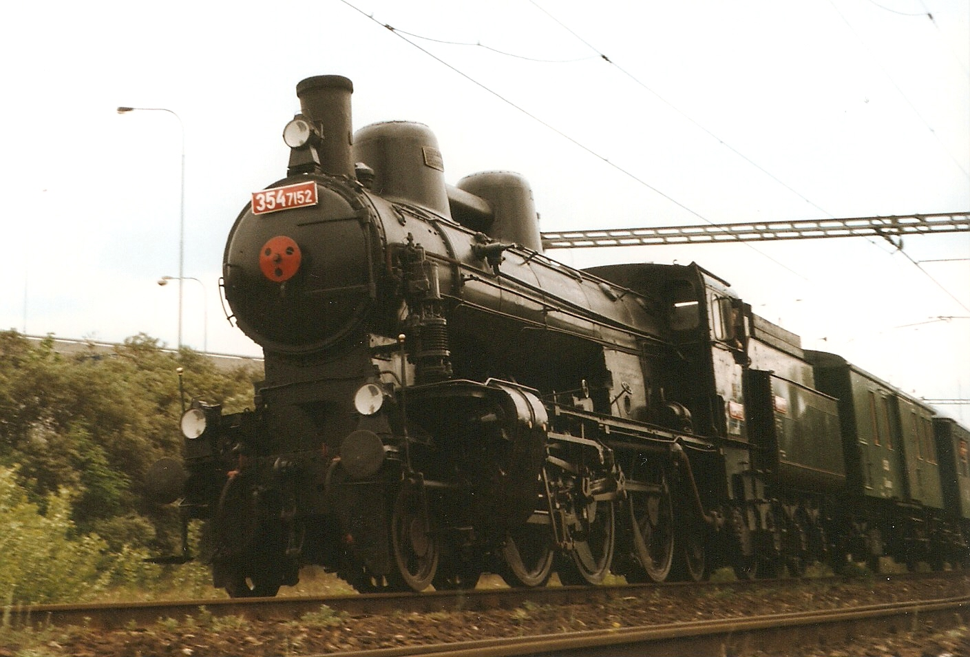 354.7152 KHKD near the station Praha Smíchov.